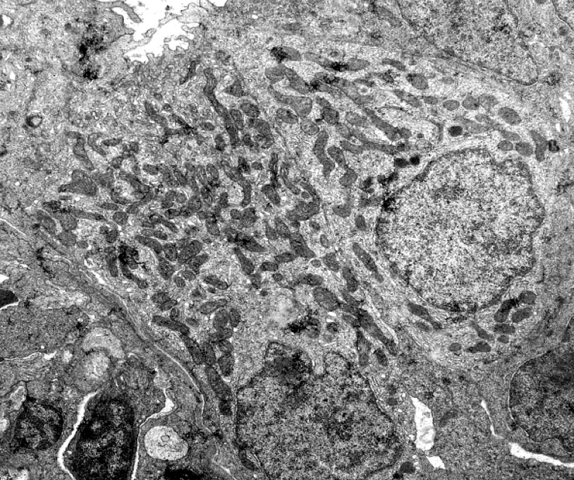 This electron micrograph images two adjacent mitochodra-rich or chloride cells in a fish gill adapted to seawater (with 3975x magnification).